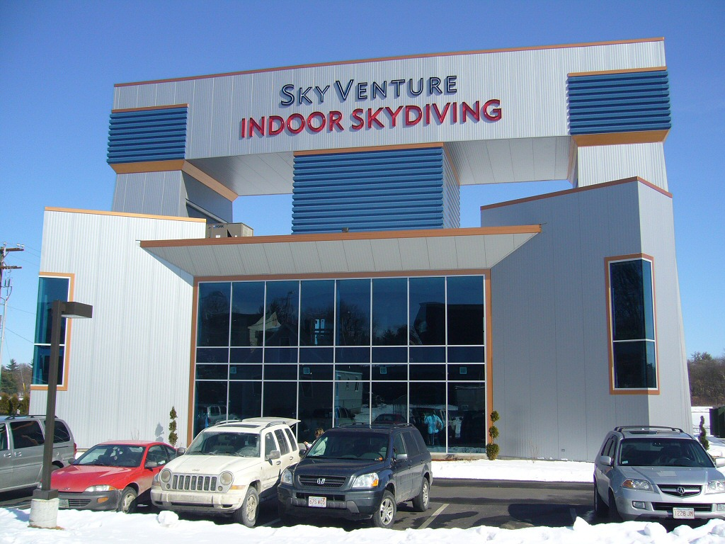 Recirculating vertical wind tunnel. Taken myself during a visit to the tunnel. I am donating this photo to the Vertical Wind Tunnel article. This is a photo of SkyVenture New Hampshire.